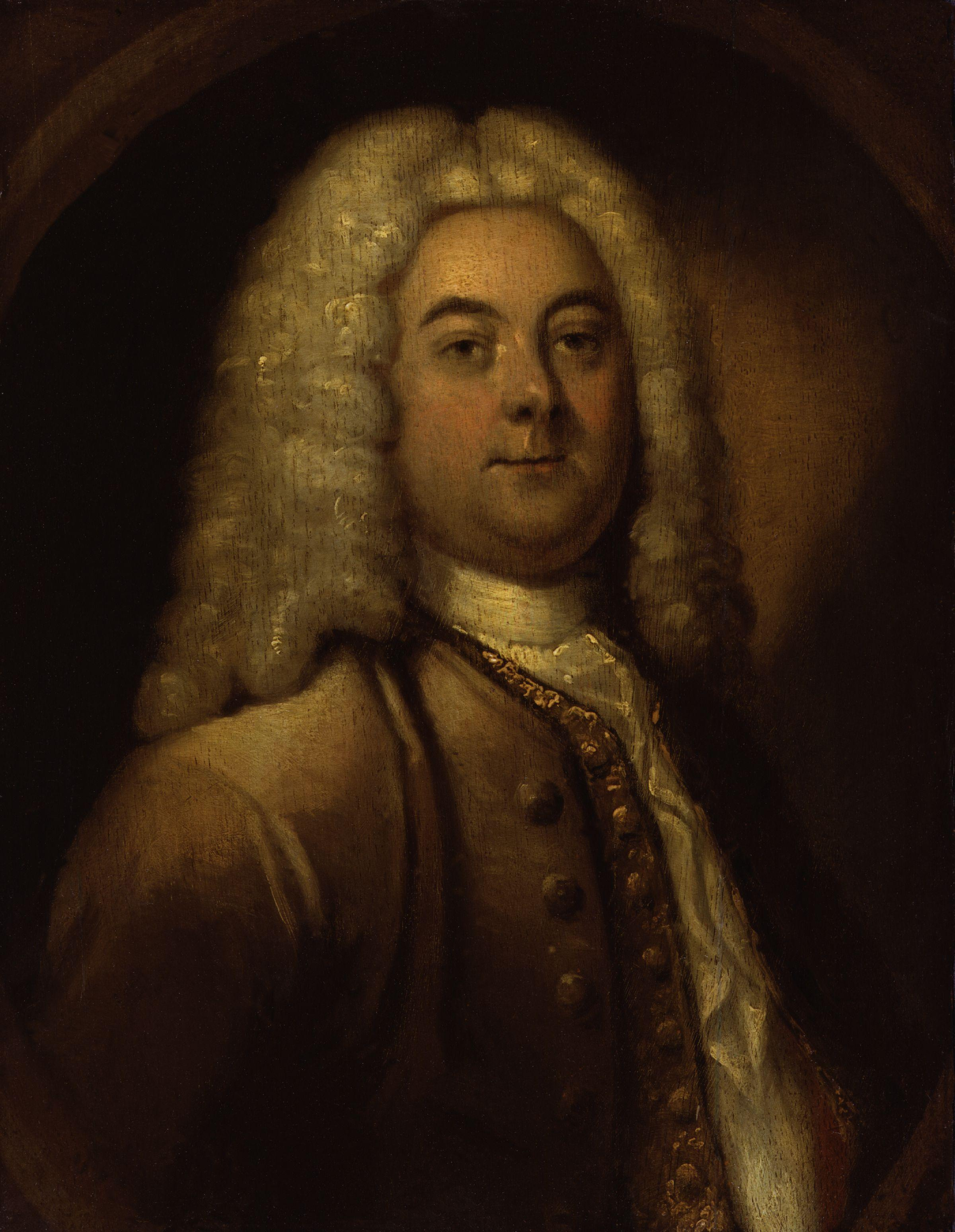 George Frideric Handel, by unknown artist. All images in this batch have an unknown author, but there is strong evidence it was first published before 1923 (based mainly on the NPG's estimated date of the work).